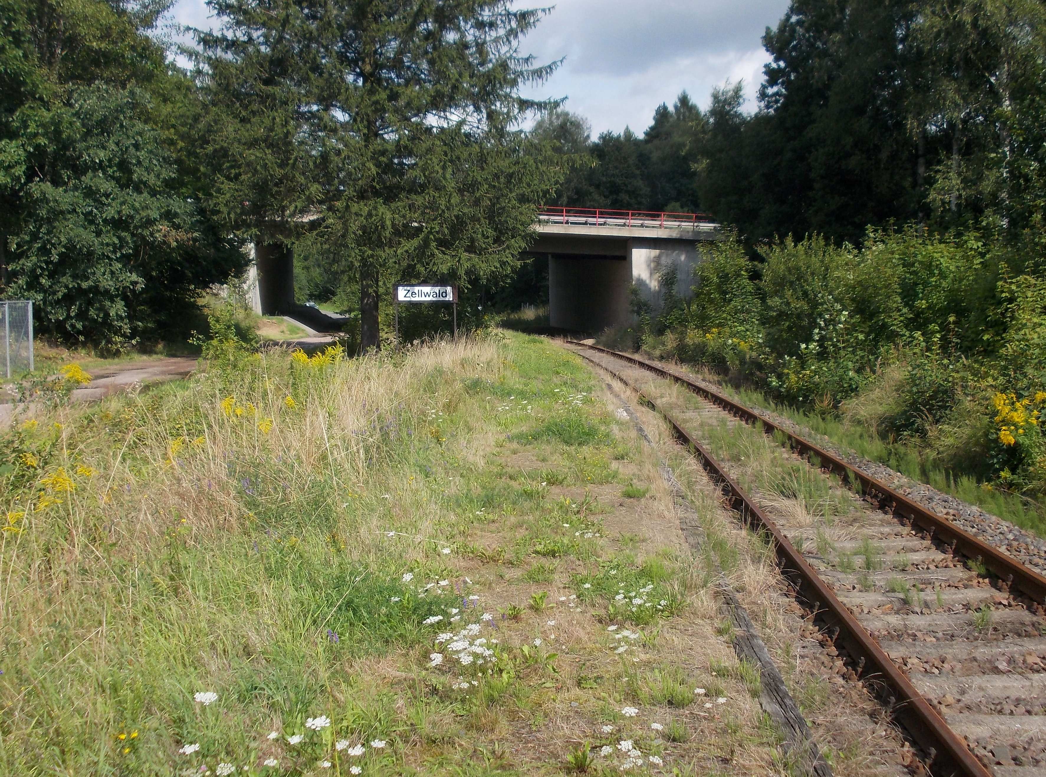 Zellwald train station near Siebenlehn (Grossschirma, Mittelsachsen district, Saxony) on the Nossen-Freiberg railway line